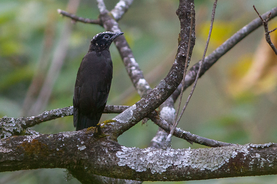 The species Purple Cochoa had been photographed from Khangchendzonga National Park in West Sikkim, India on 08.11.2016.